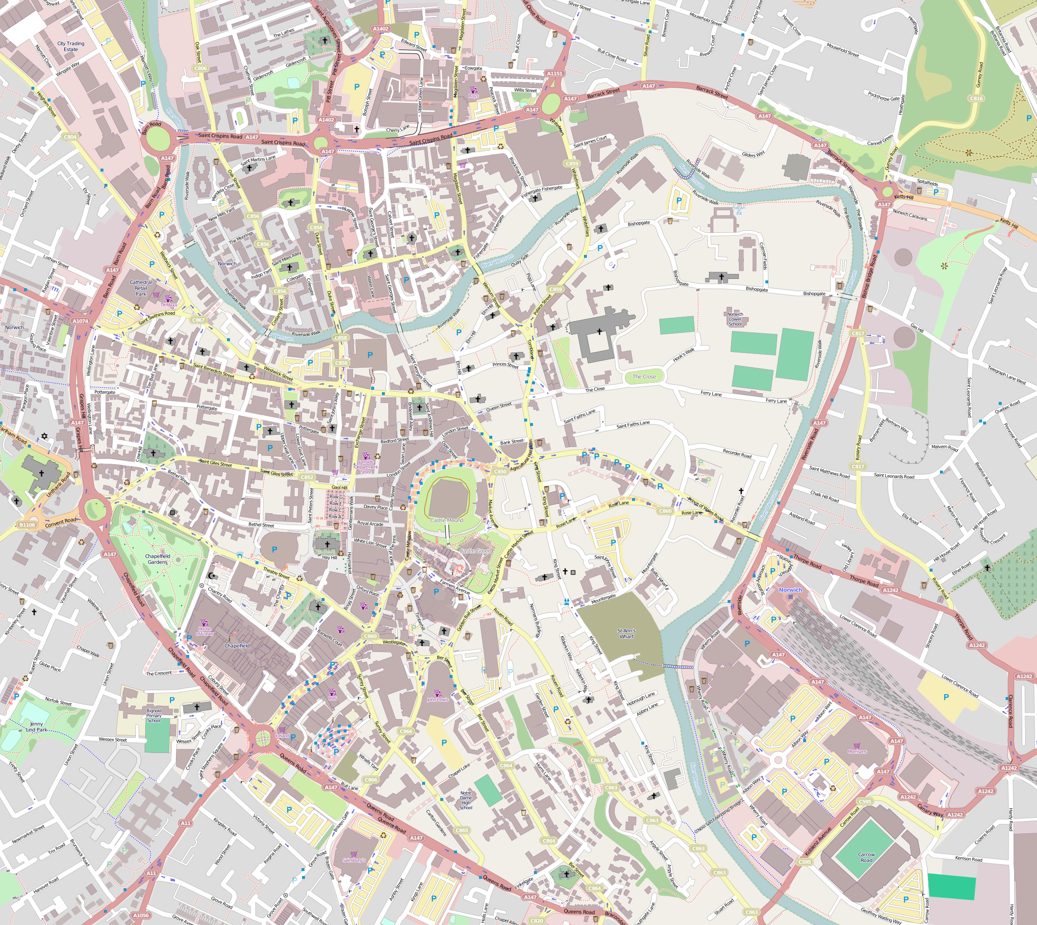 Map of Norwich Central Geographic limits: N: 52.63793° S: 52.62064° W: 1.28253° E: 1.31445°